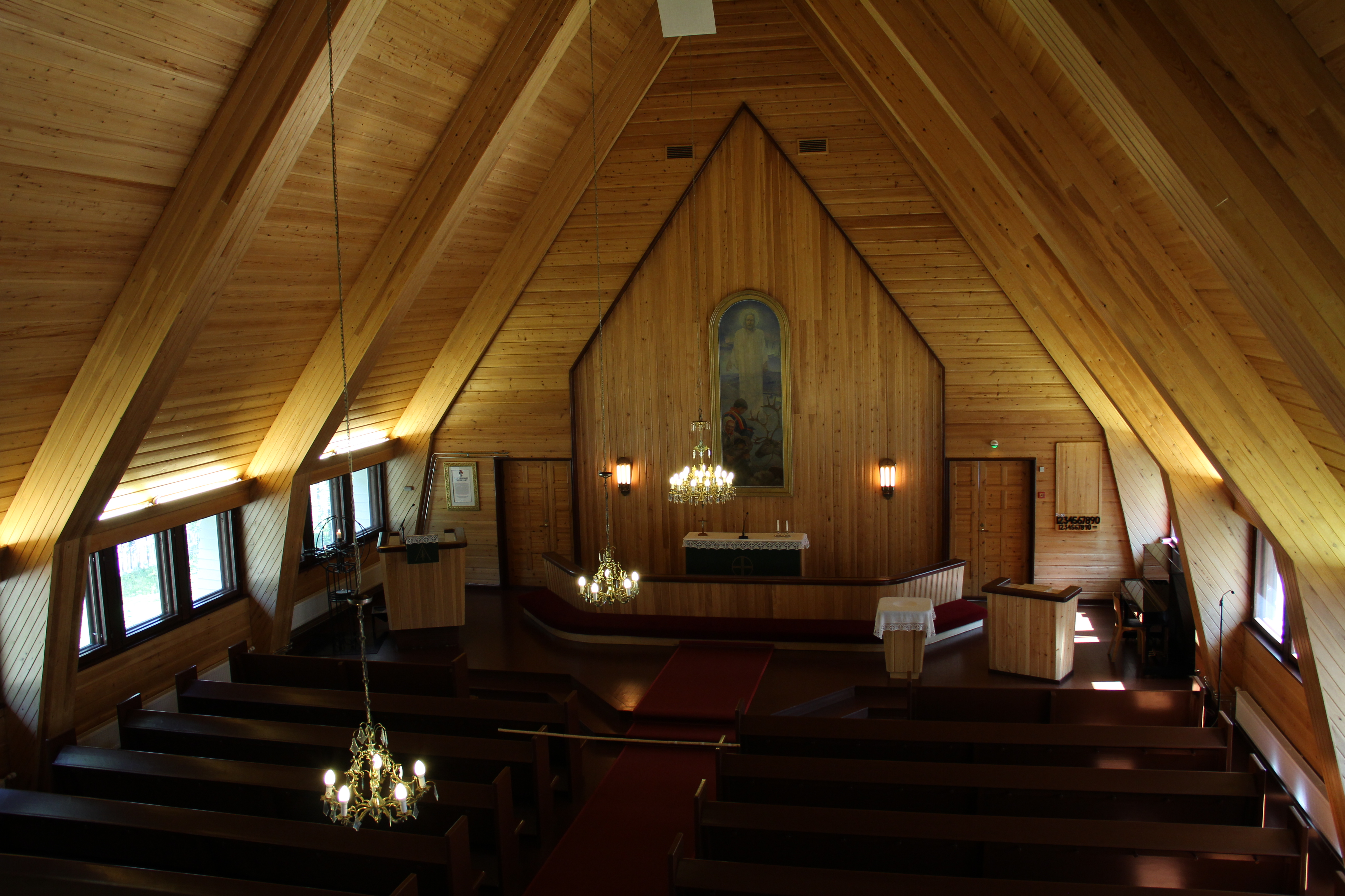 Inari church, Inari, Finland. – Interior seen from lectern.